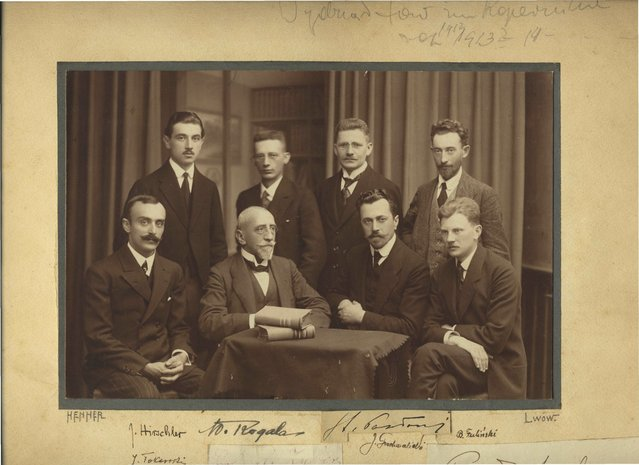 Rudolf Zuber - Geologists from Poland (from right: 3)